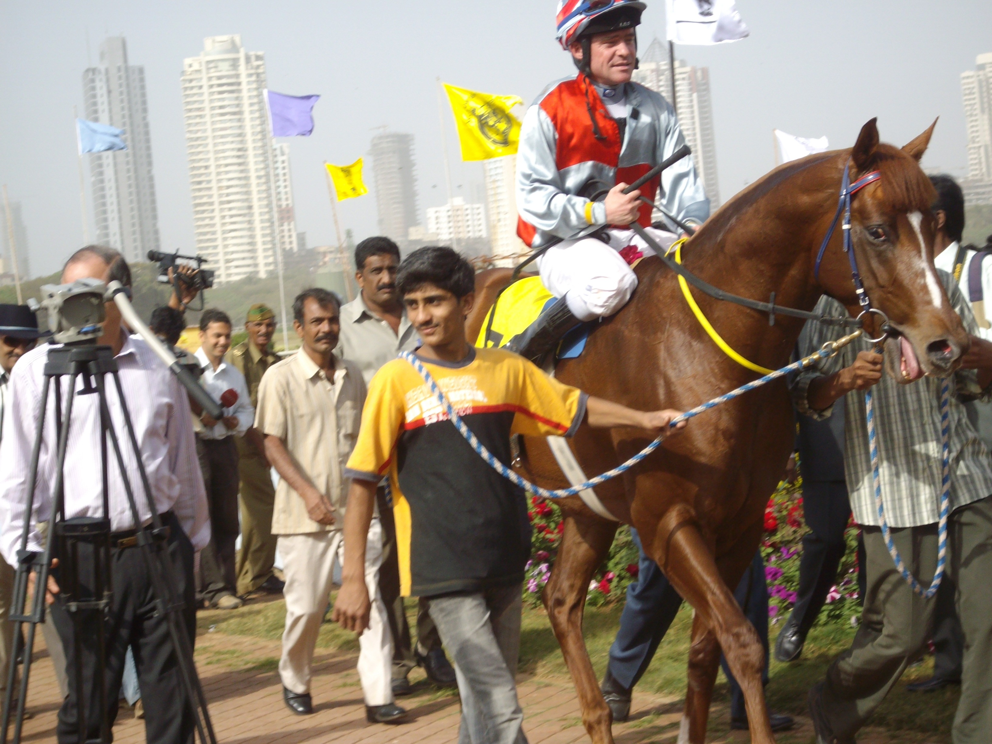 International jockeying at Mahalaxmi racecourse(Mumbai) on "McDowell Indian Derby-2008" Sunday(2-2-2008)